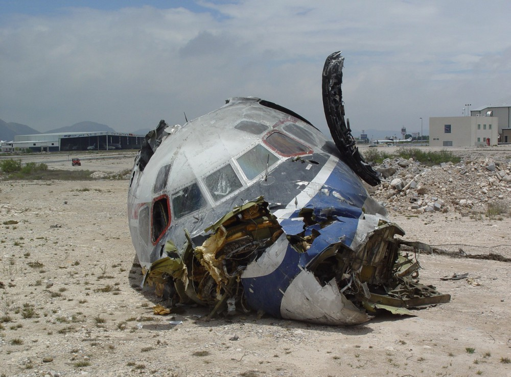 The DC-9 crashed in an industrial area 800 m north of the airport. The airplane broke up and burned.